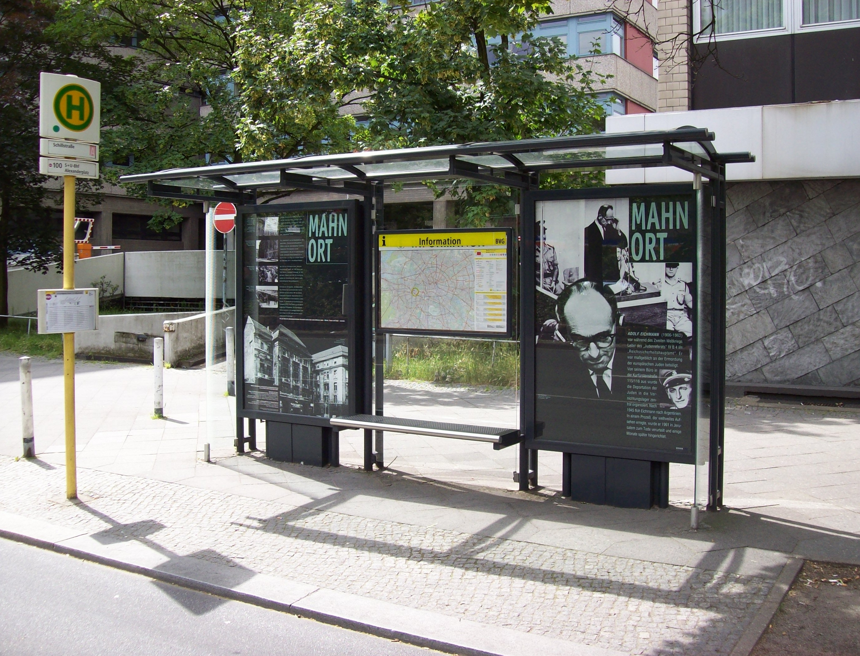 Bus-Stop in front of Eichmannreferat